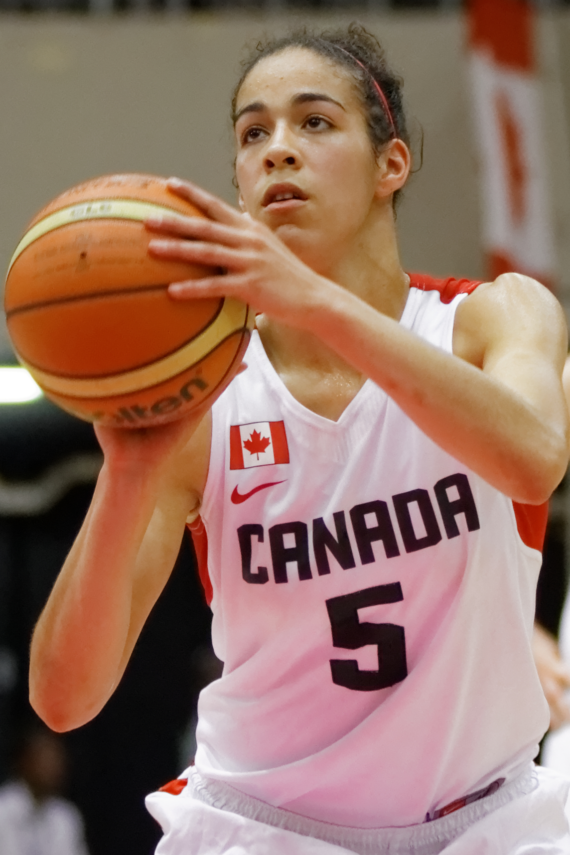 EuroEssonne, France - Canada, 7 June 2013.